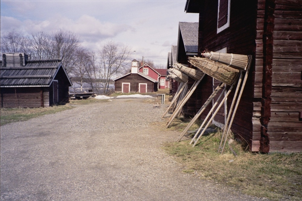 Old buildings at Kukkolankoski (Kukkola Rapids) in Tornio, Finland.